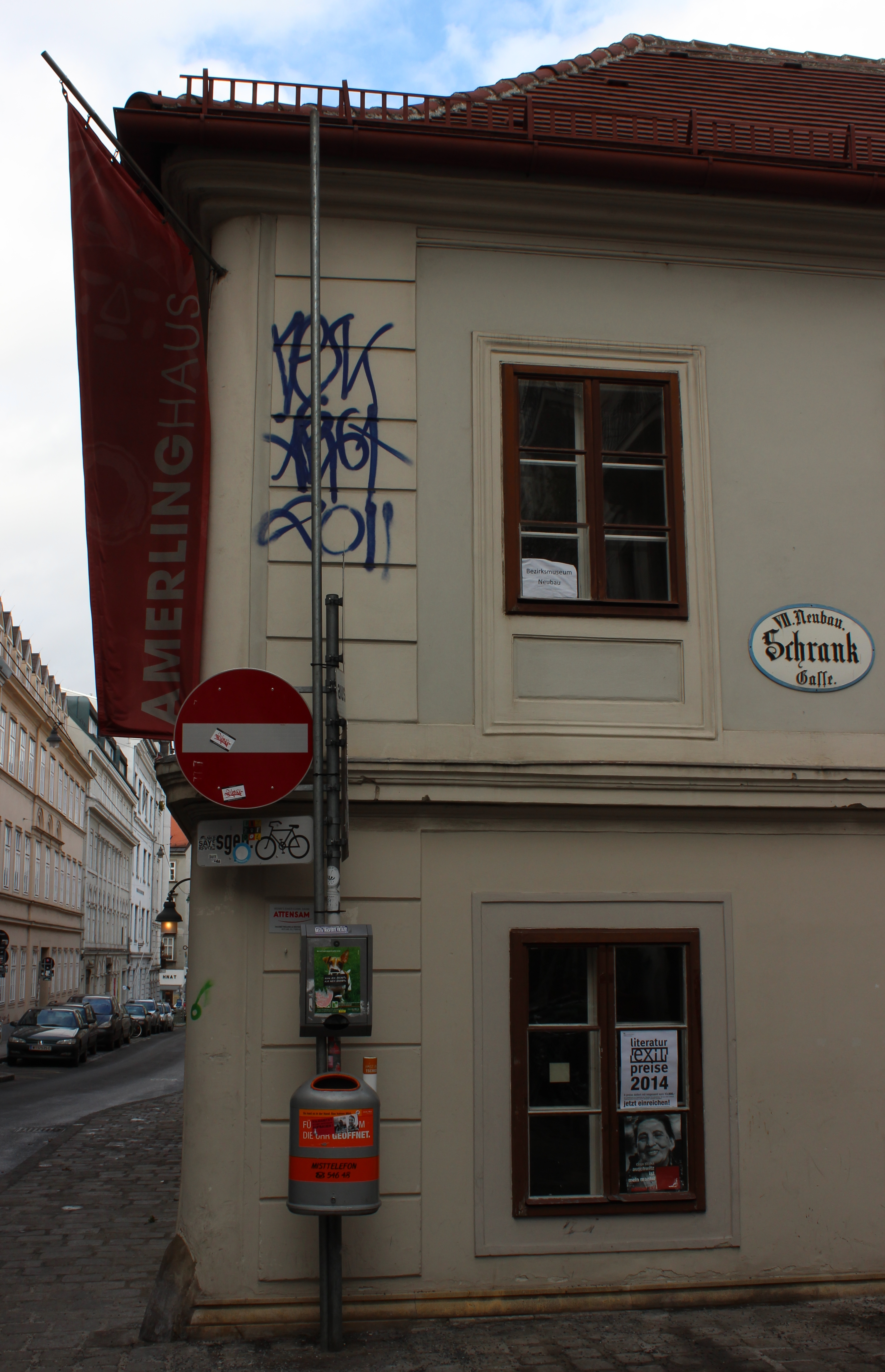 The Bezirksmuseum Neubau (Museum of the district Neubau) in the Amerlinghaus, Stiftgasse 8, in Vienna